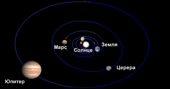 Inner region of the solar system. Dimensions of celestial bodies are not to scale. Positions of Mercury, Venus, Earth, Mars, Ceres, and Jupiter in September 1st, 2006.